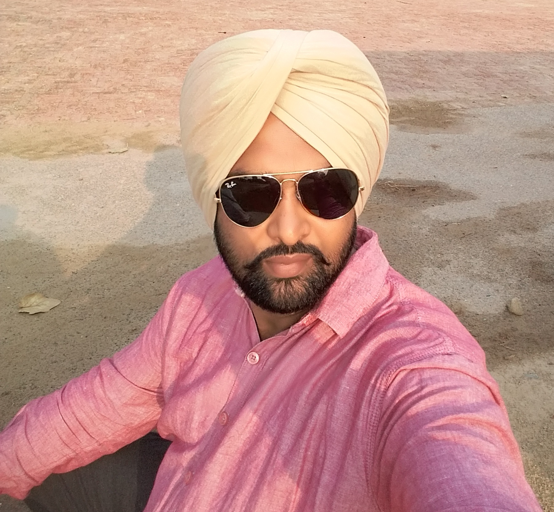 Punjabi Poet Harvinder Dhaliwal 3